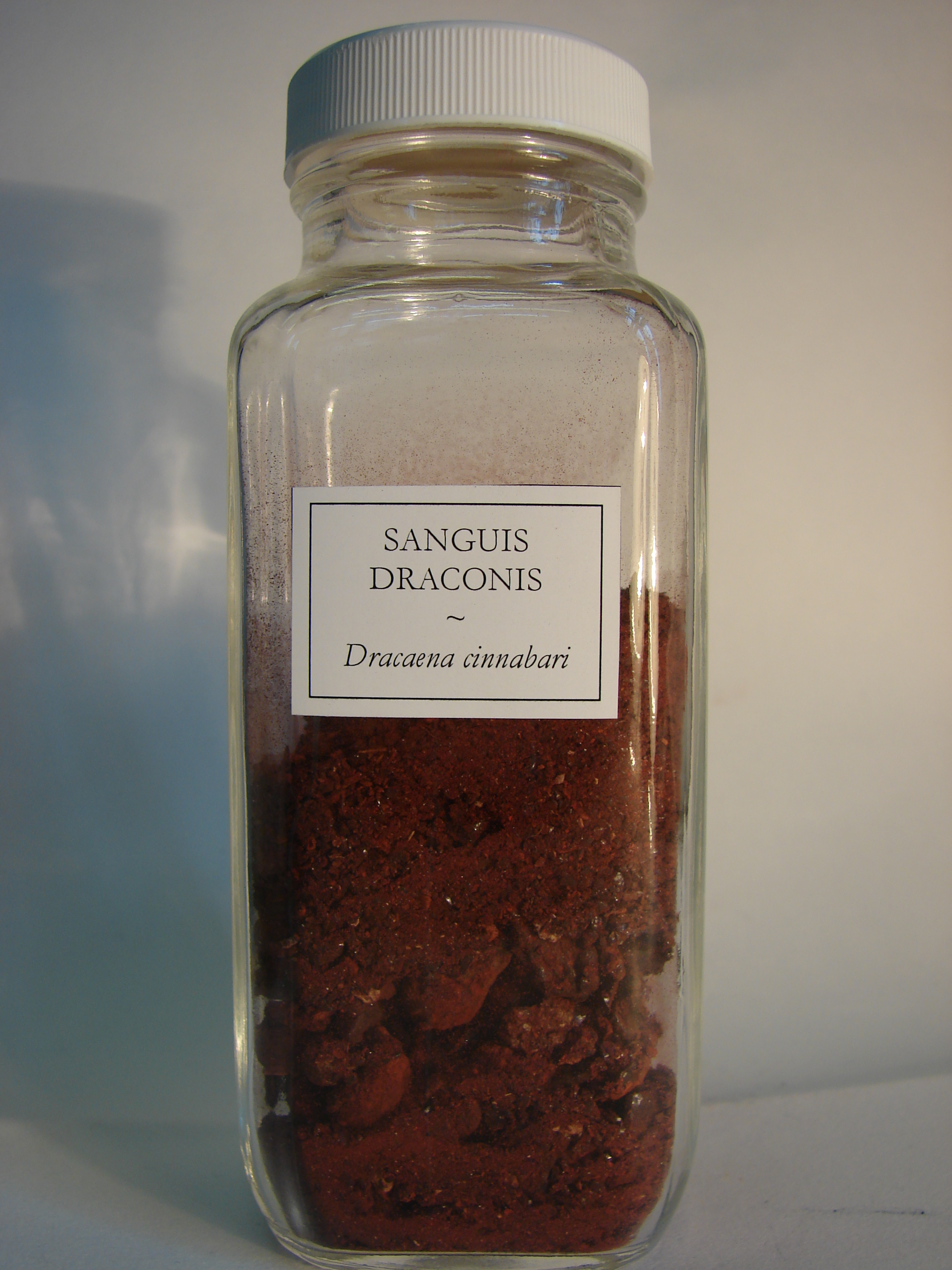 Sanguis draconis, Dracaena cinnabari